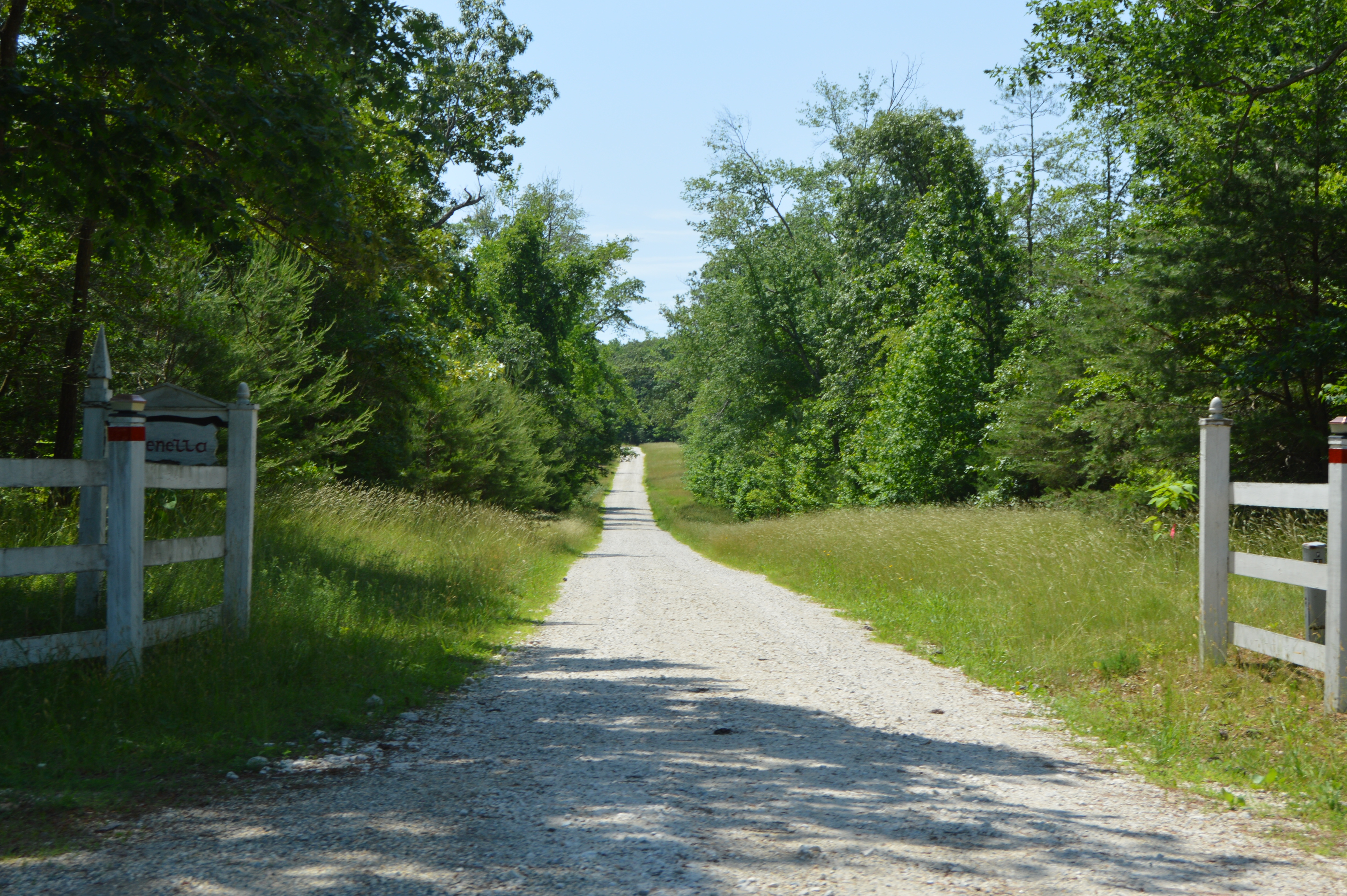 Entrance to the Edenetta estate, located off U.S. Route 17 southeast of Loretto in Essex County, Virginia, United States. The estate is listed on the National Register of Historic Places.